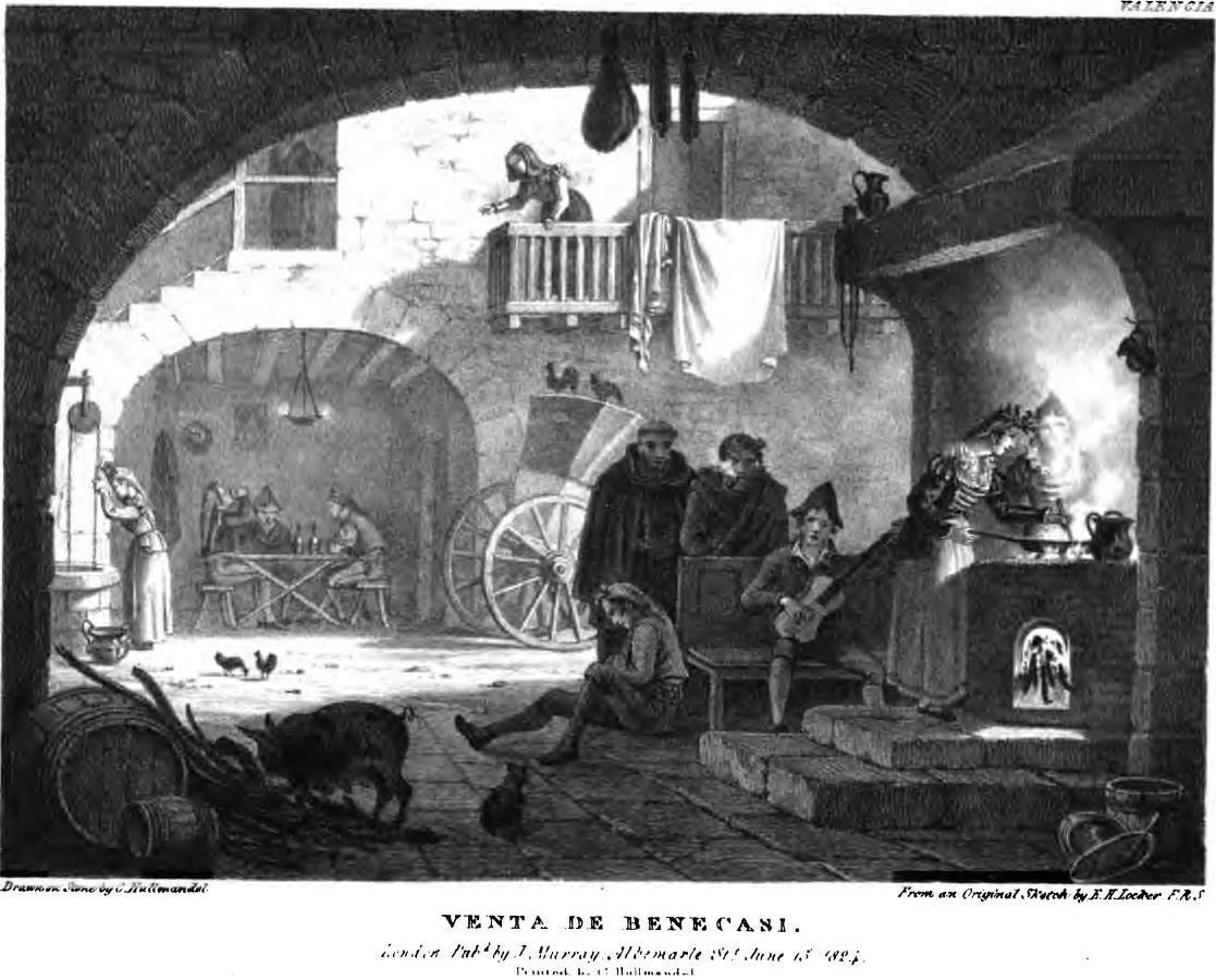 Venta de Benecasi (work "Views in Spain")